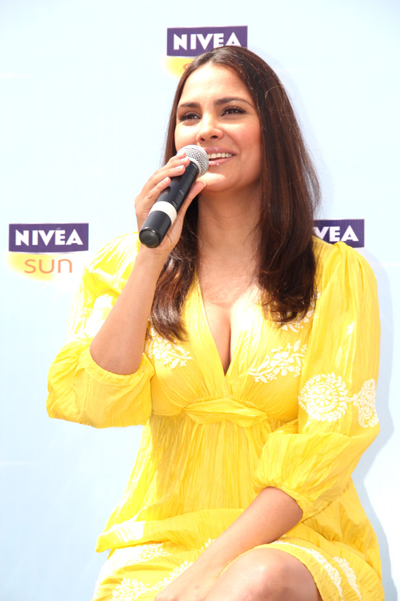 Lara Dutta at the launch of NIVEA Sun in India